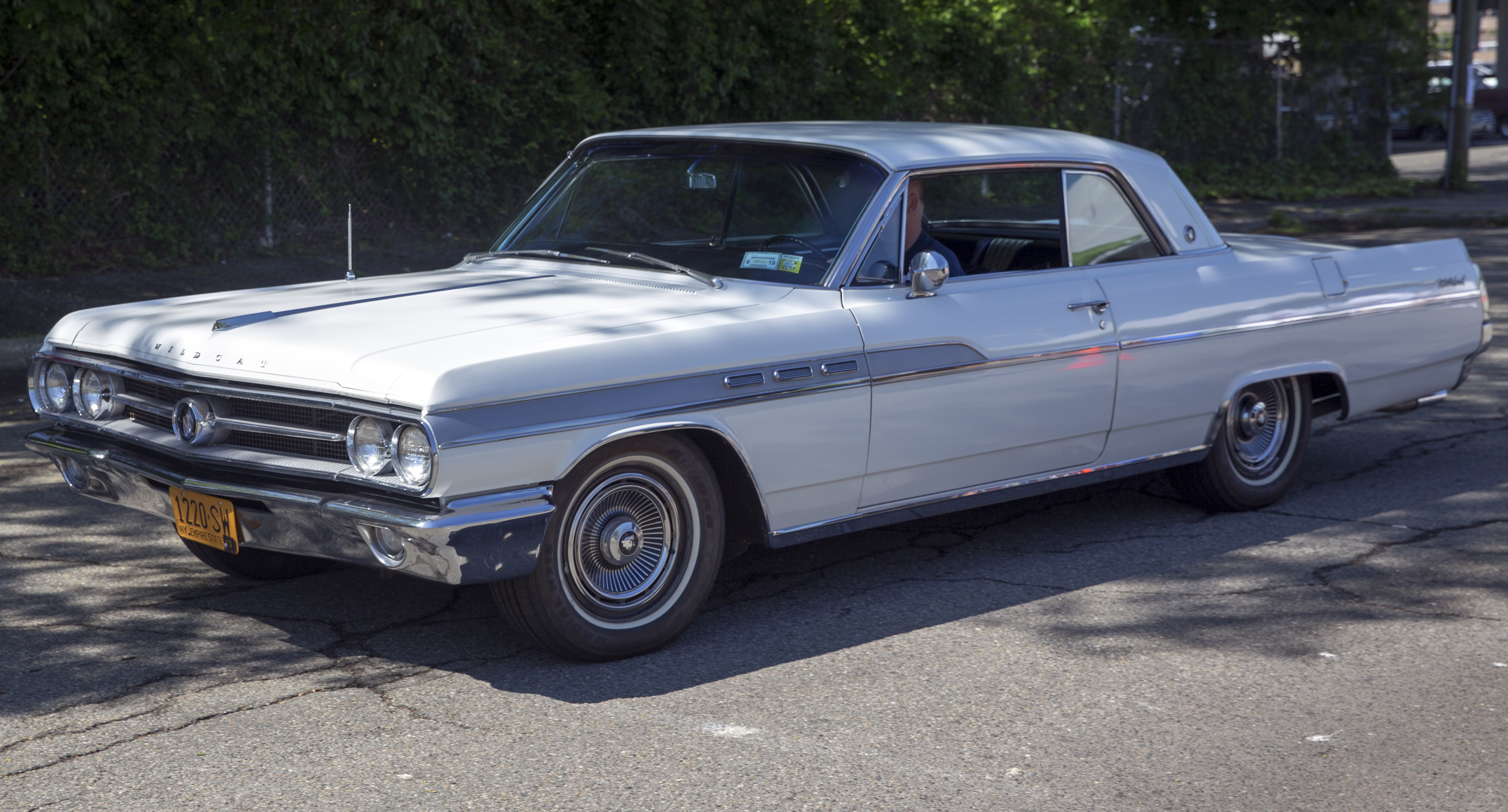 A 1963 Buick Wildcat in Long Island, NY.